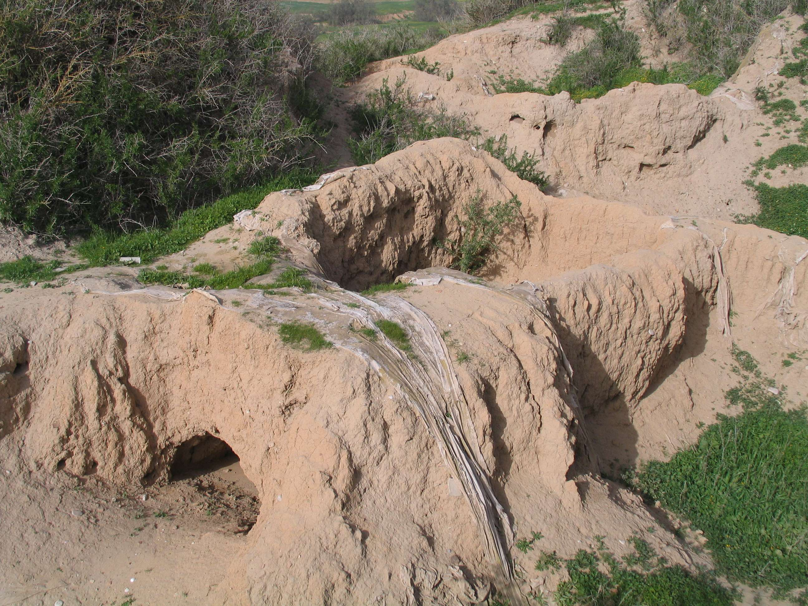 Tel Gamma, near kibutz Reim, Israel.